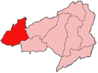 Map of Bong County, Liberia showing Fuamah District; created with the GIMP. Made by User:Acntx.